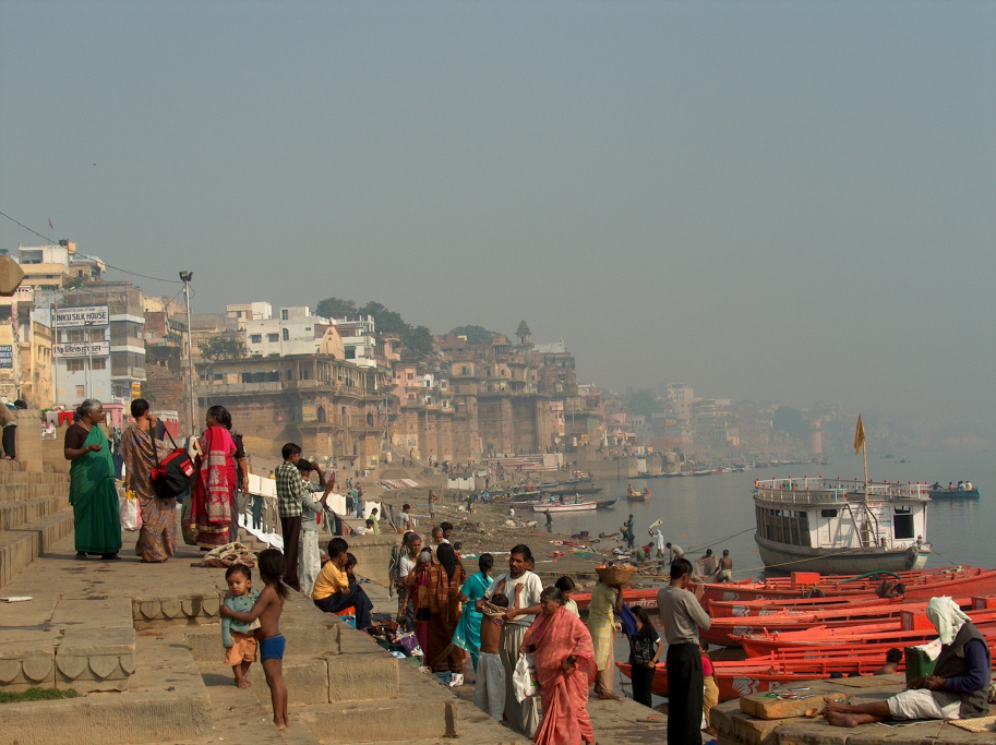 People on a ghat in Varanasi